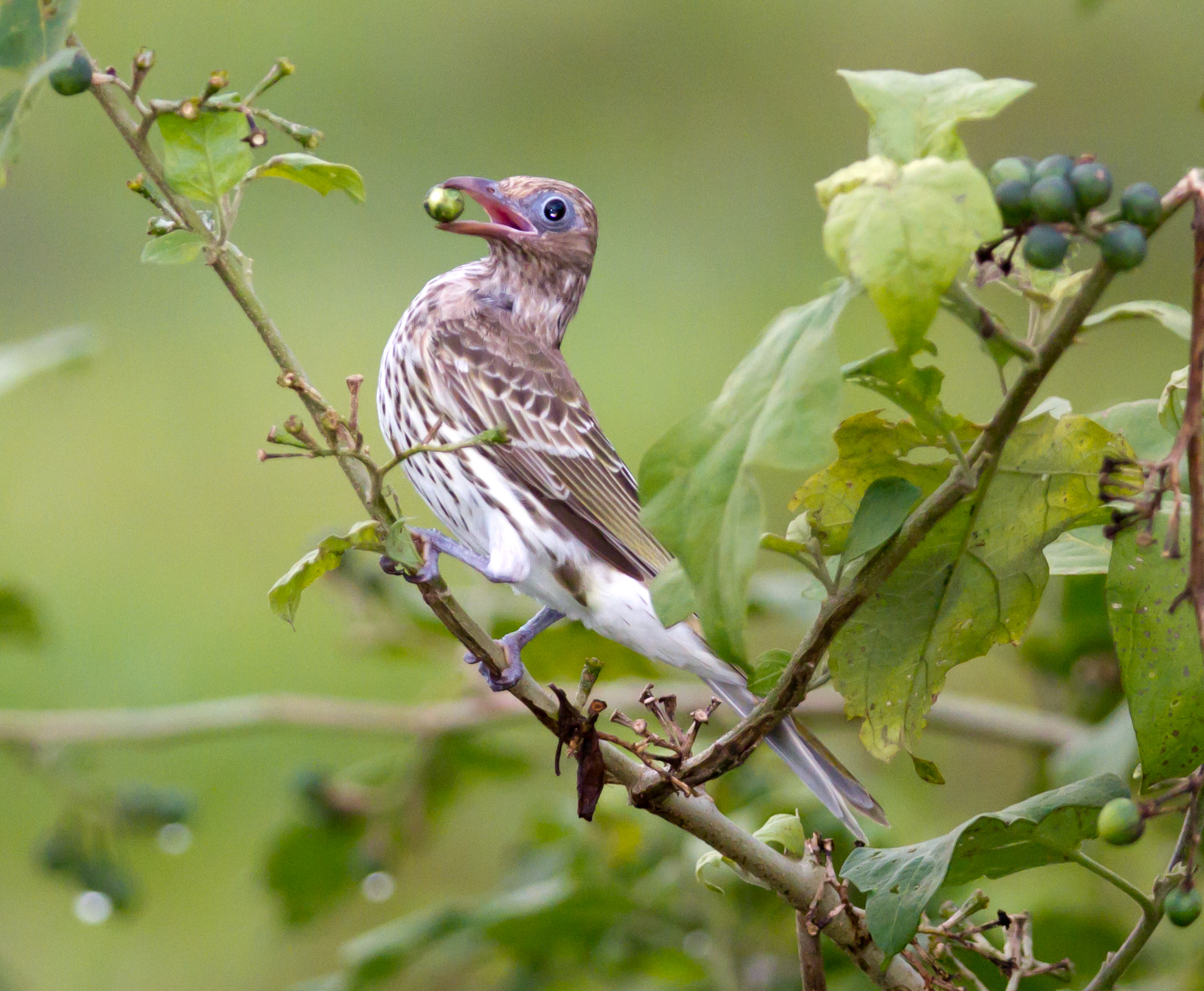 A female Queensland in Cairns, Queensland, Australia.